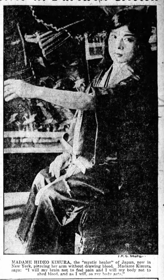 Komako Kimura Practicing Acupuncture, Evening Public Ledger, 1919